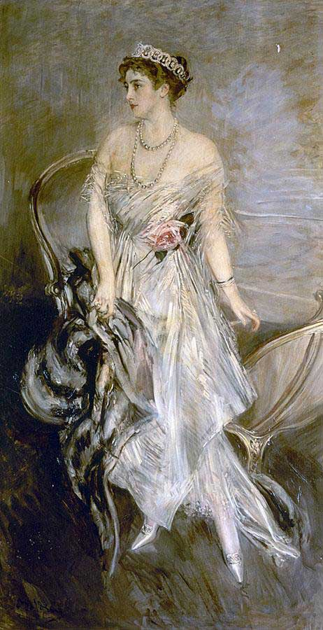 Mrs. Leeds, the later Princess Anastasia of Greece (and Denmark), 1914